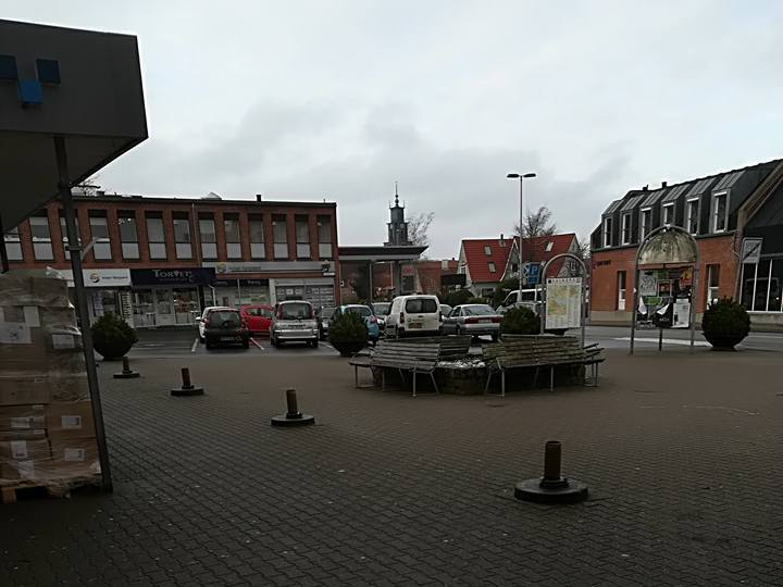 Vejgaard, Aalborg Denmark